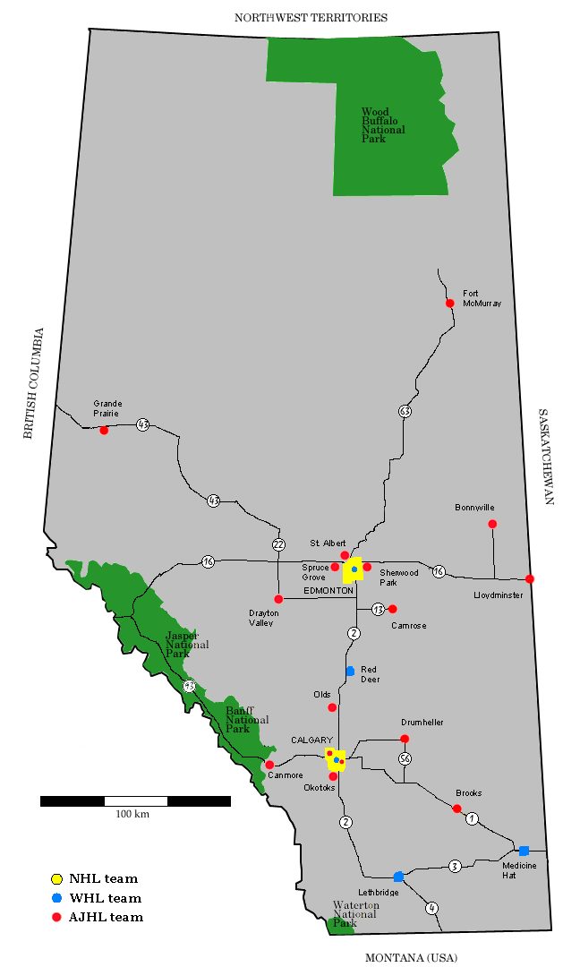 Map of Alberta with locations of hockey teams from three leagues highlighted